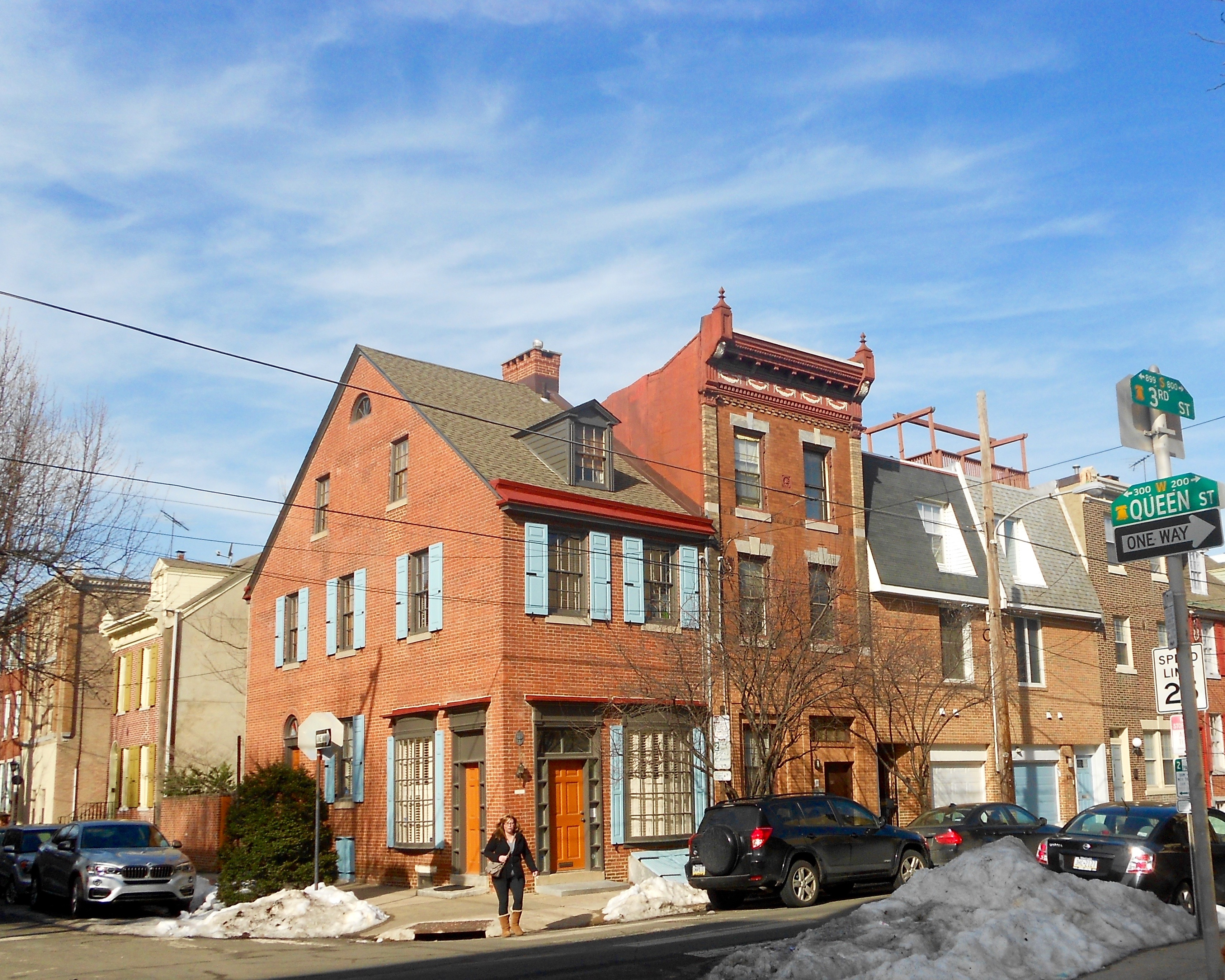 House at 3rd Street and Queen Street in the Southwark neighborhood of south Philadelphia. In the Southwark Historic District